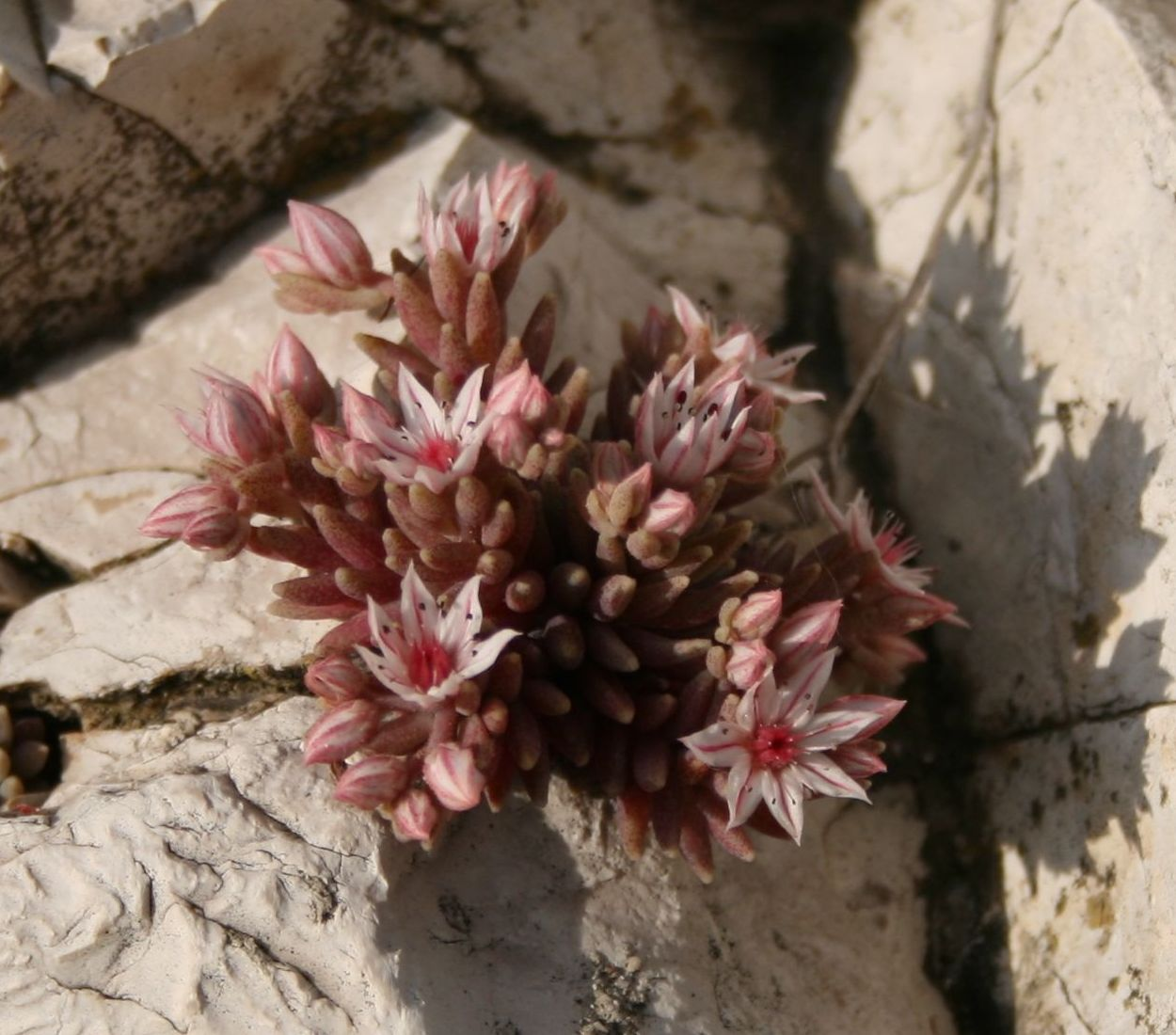 Sedum hispanicum, Dickblattgewächse (Crassulaceae) - Italien/Italia/Italy: Apulien/Puglia, Prov. Foggia, Rignano Garganico